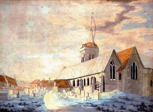 Early drawing by a young JMW Turner, likely from around 1786 when turner would have been Twelve or Thirteen.